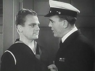 screenshot of James Cagney and Pat O'Brien from the film Here Comes the Navy